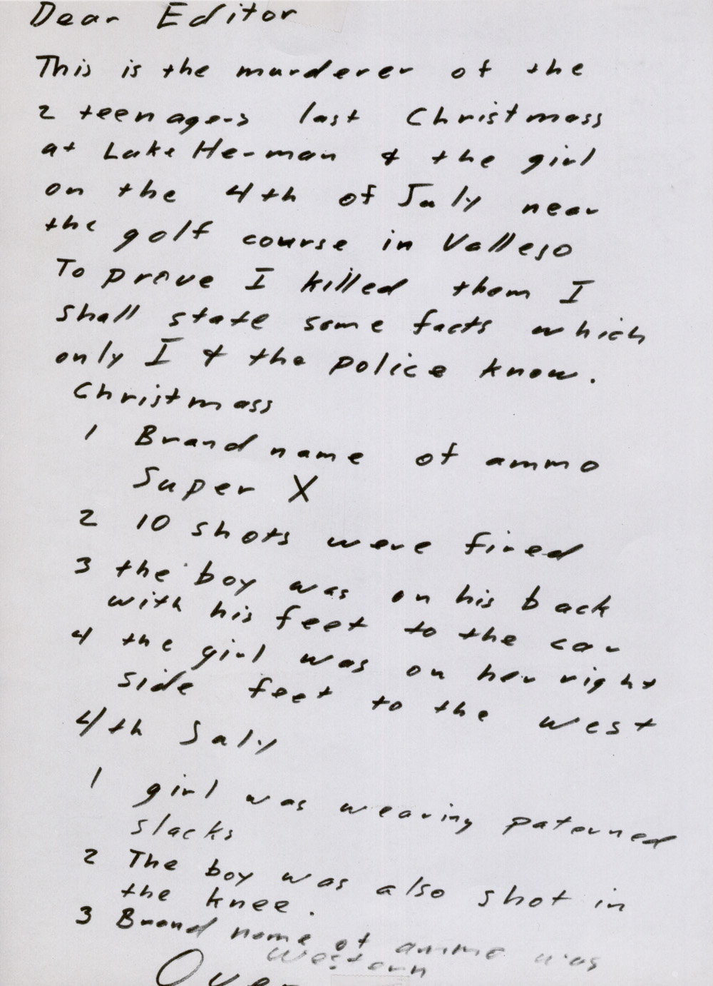 Page 1 of the Zodiac Killer's July 31st 1969 letter to the San Francisco Chronicle, San Francisco Examiner and Vallejo Times